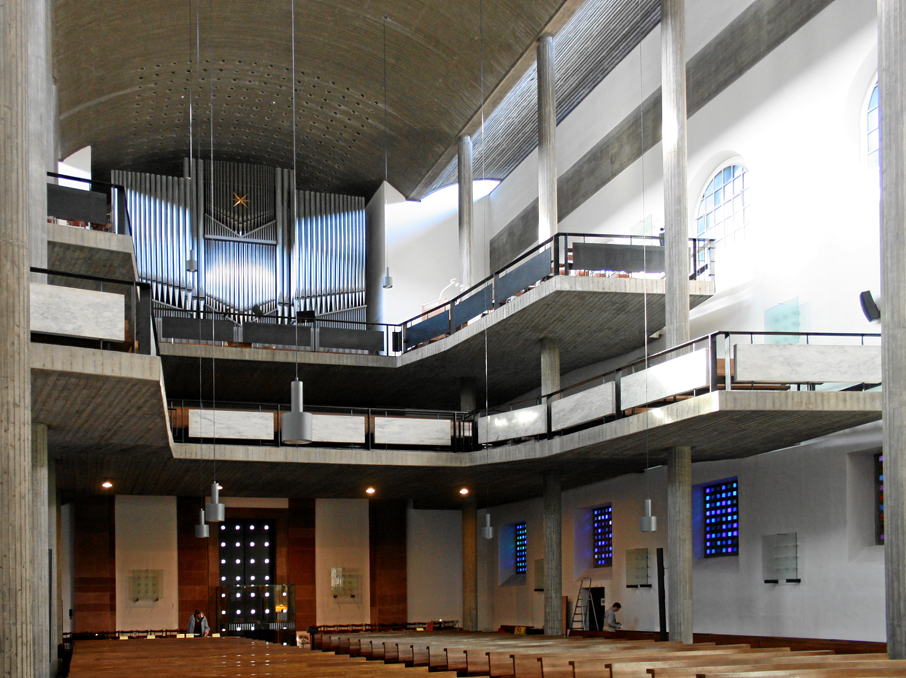 Protestant city church in Karlsruhe, Germany. Nave towards West. Double gallery as reconstructed by Horst Linde after World War 2 destruction, main organ by G. F. Steinmeyer & Co.